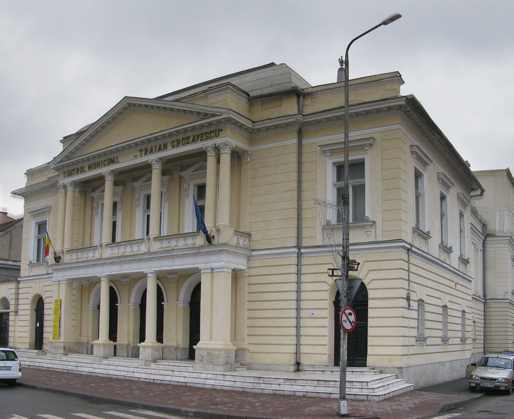 Link:the "Traian Grozavescu" municipal theatre in Lugoj, Romania